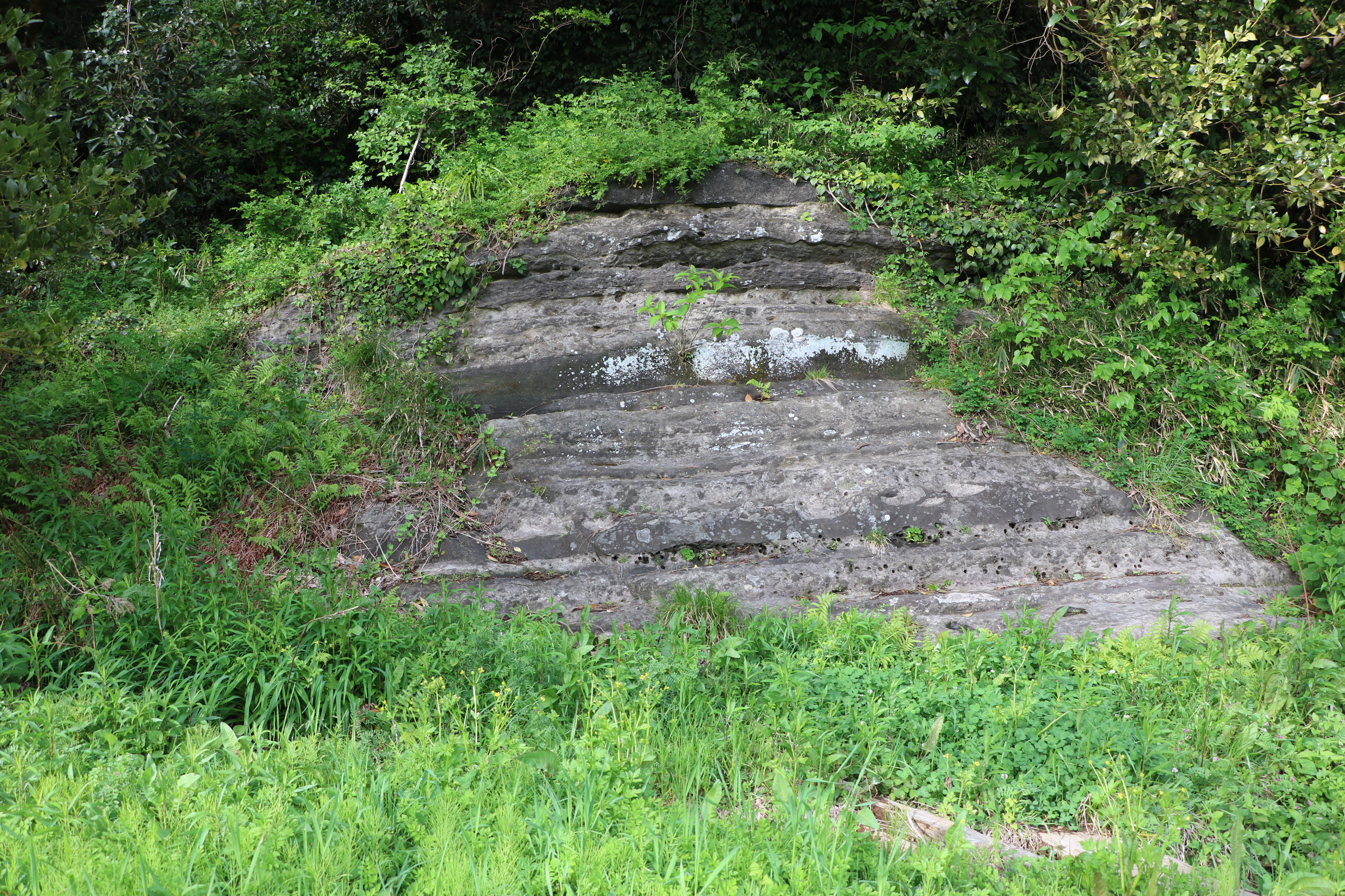 Moroiso uplift coast strata